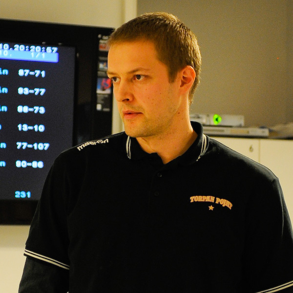 Hanno Möttölä in a press interview in Helsinki, Finland at ToPo - Namika Lahti basketball game Oct 28th 2009.